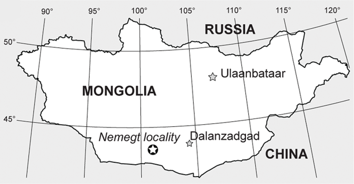 The Nemegt locality in the Gobi Desert, southern Mongolia.